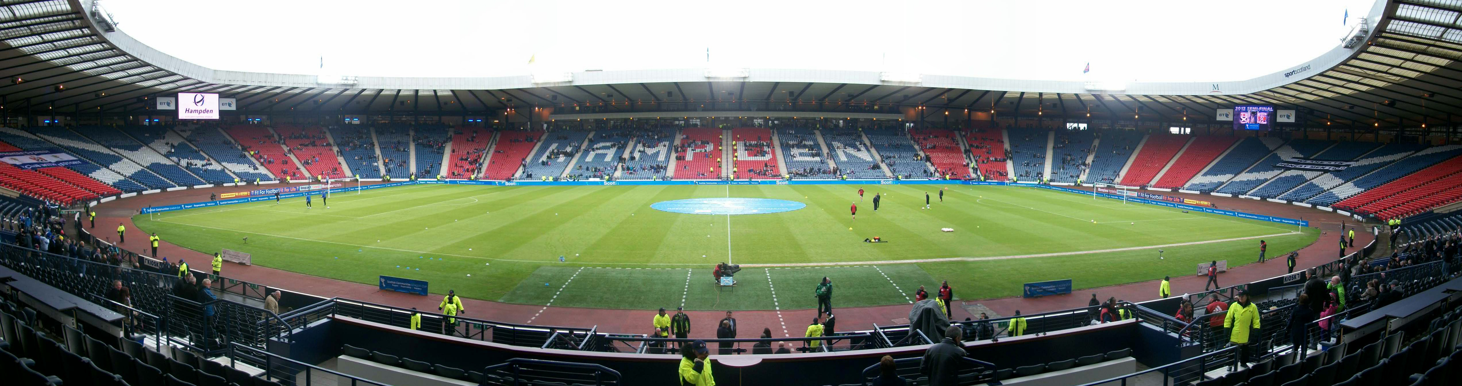 Panorama of Hampden Park from South Stand during Ayr Utd vs Kilmarnock, Jan 2012